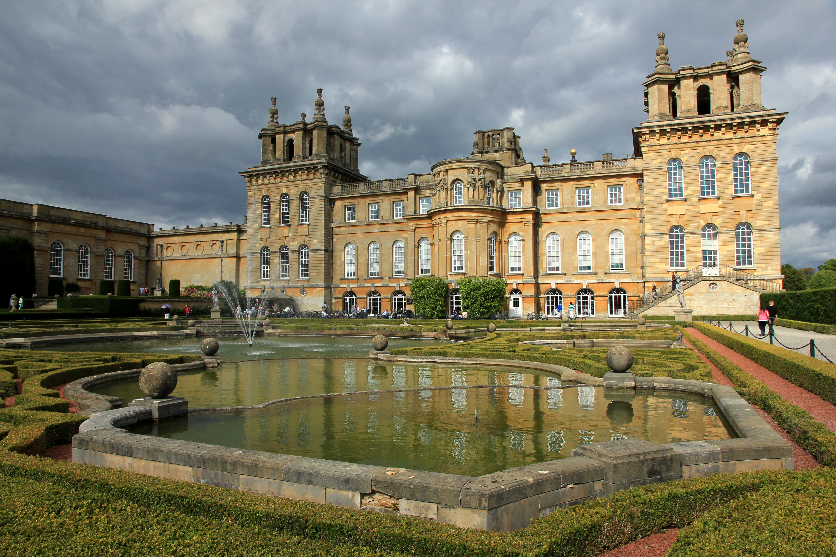 Blenheim Palace